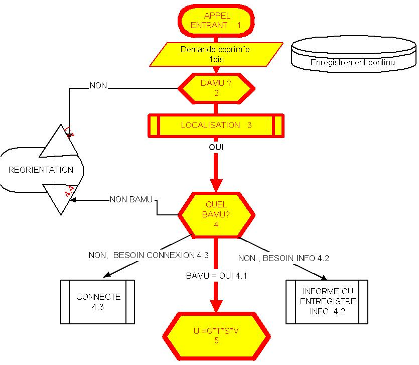 First Tsks of Medical Regulation